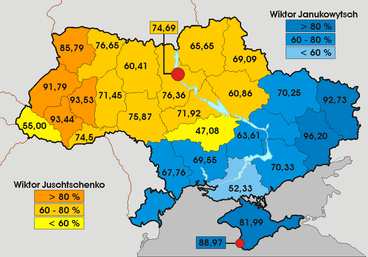 Ukrainian presidential election, 2004 - by Oblast